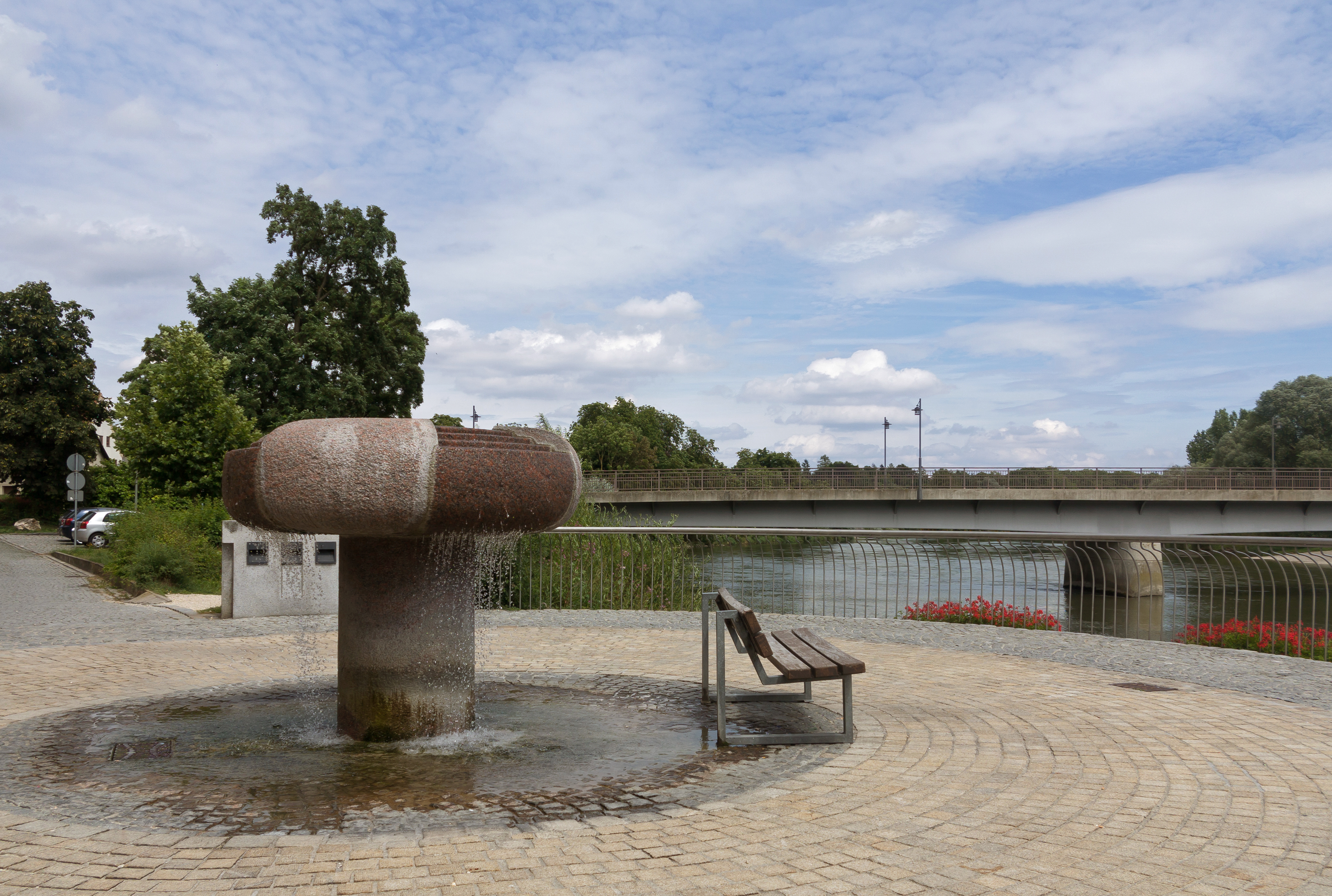 Lauingen, sculpture with die Donaubrücke